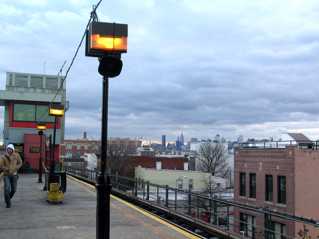 Ditmars Boulevard Station, BMT Astoria LIne. NYC Subway